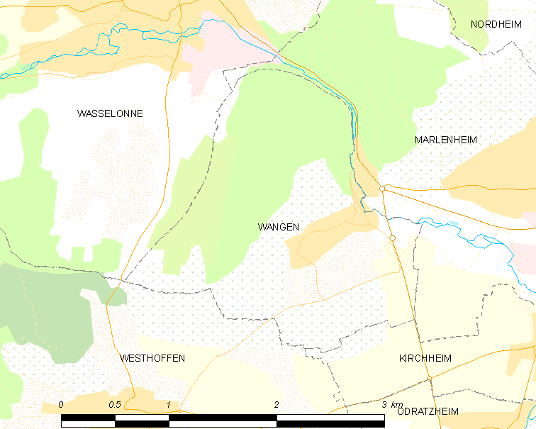 Map of French municipality